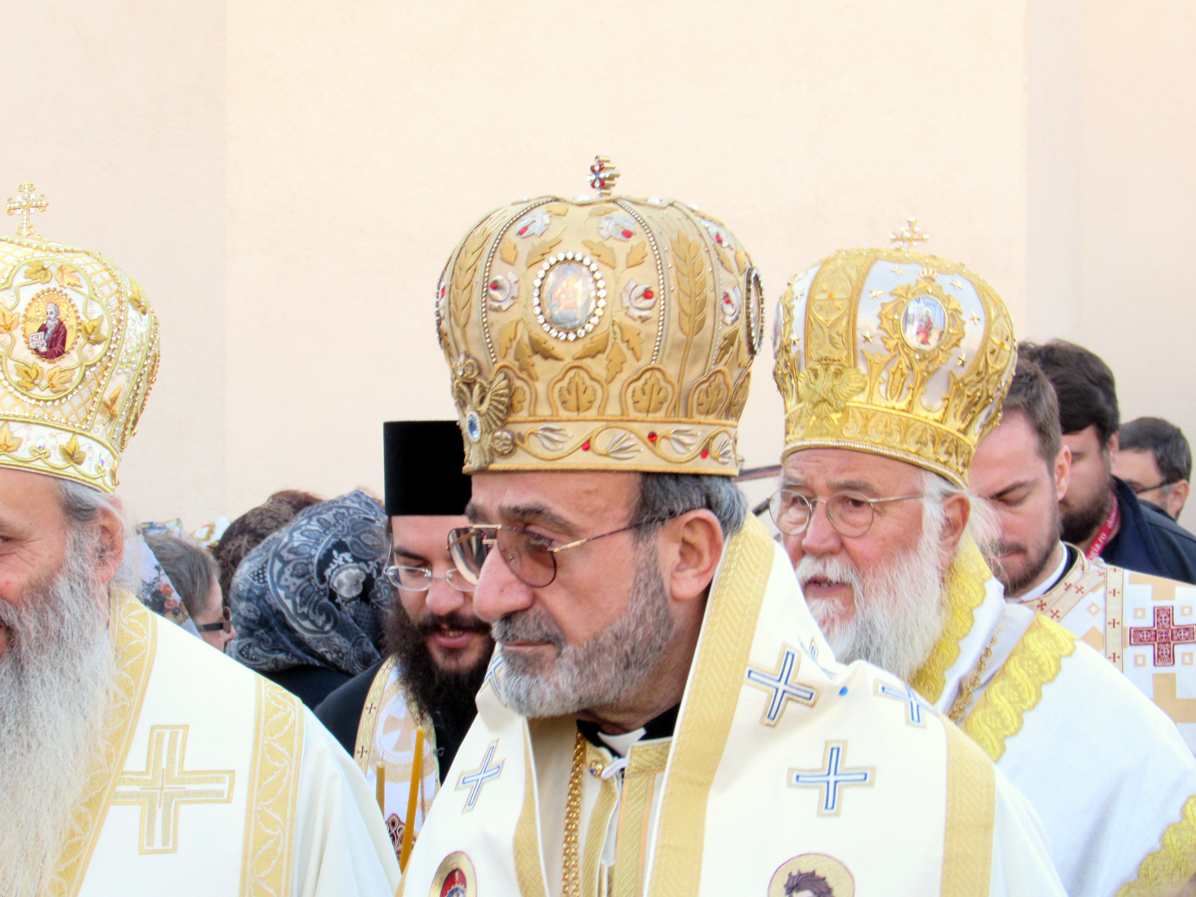 Antiochian orthodox bishop Qais Sadiq